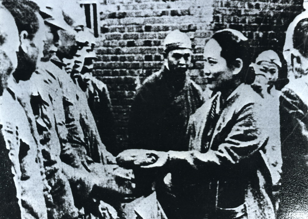 Soong Ching-ling visited soldiers in Chongqing